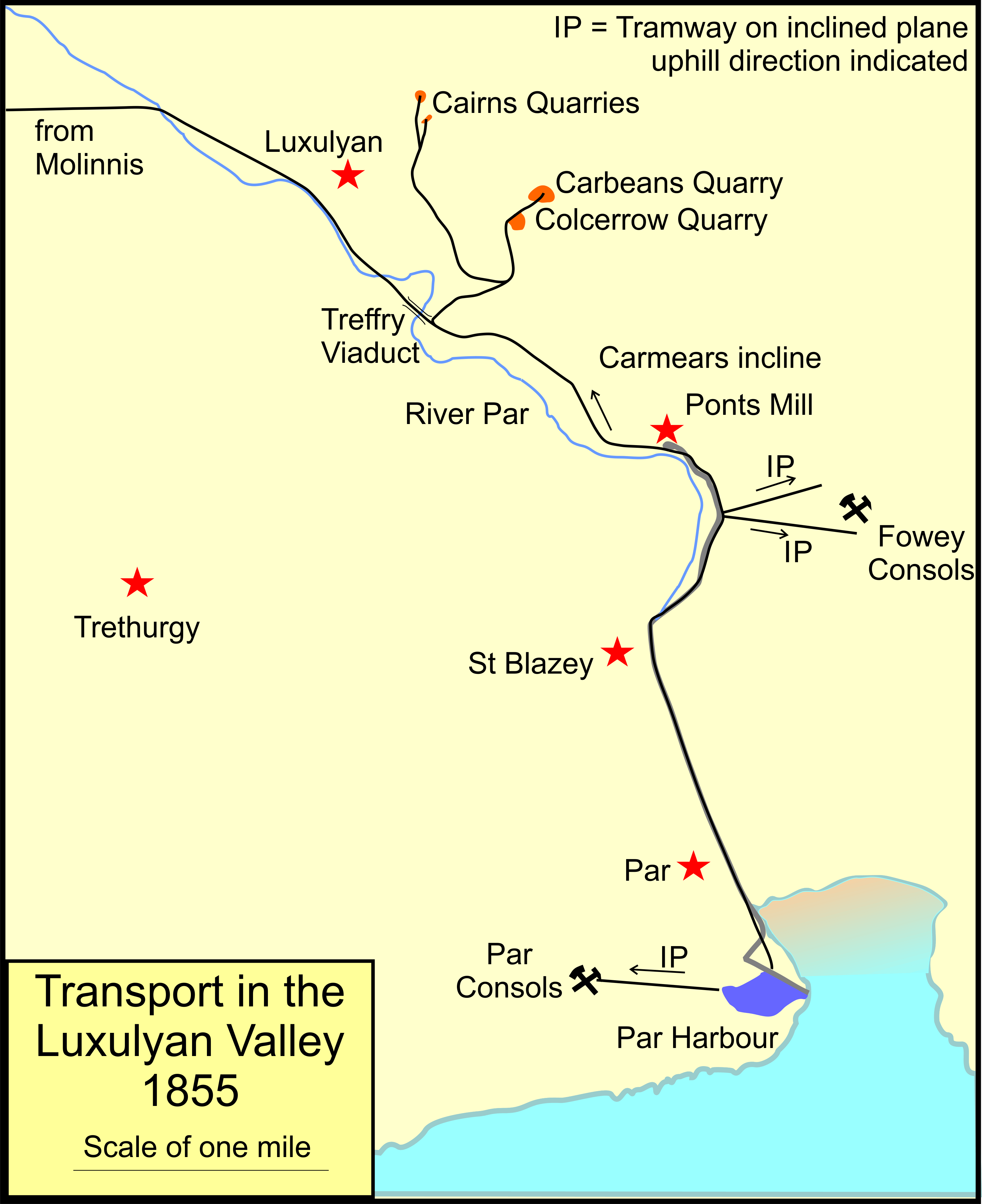 Tramways in the Luxulyan Valley in Cornwall, England, in 1855